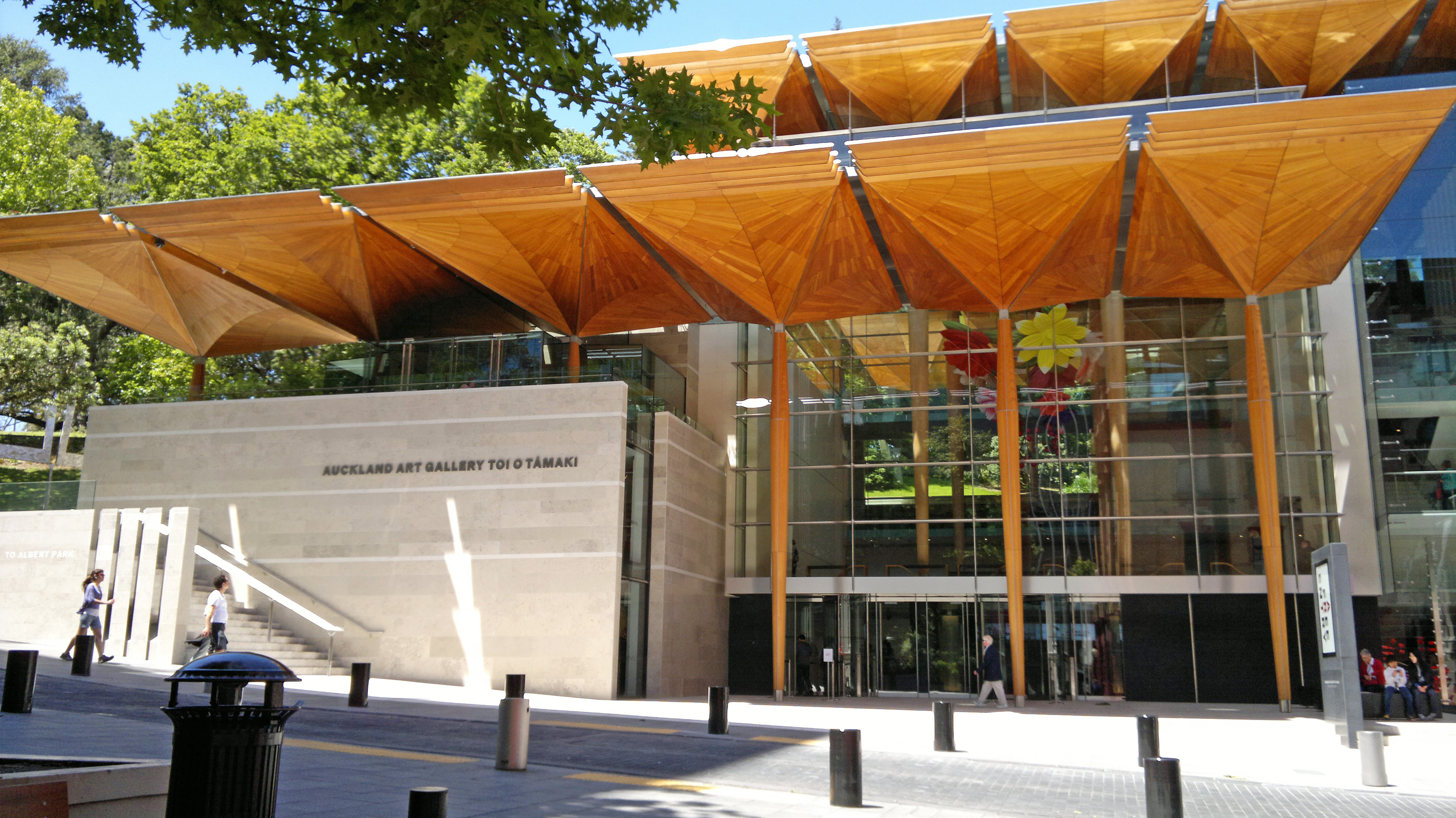 Modern extension of Auckland Art Gallery, completed in Sept 2011